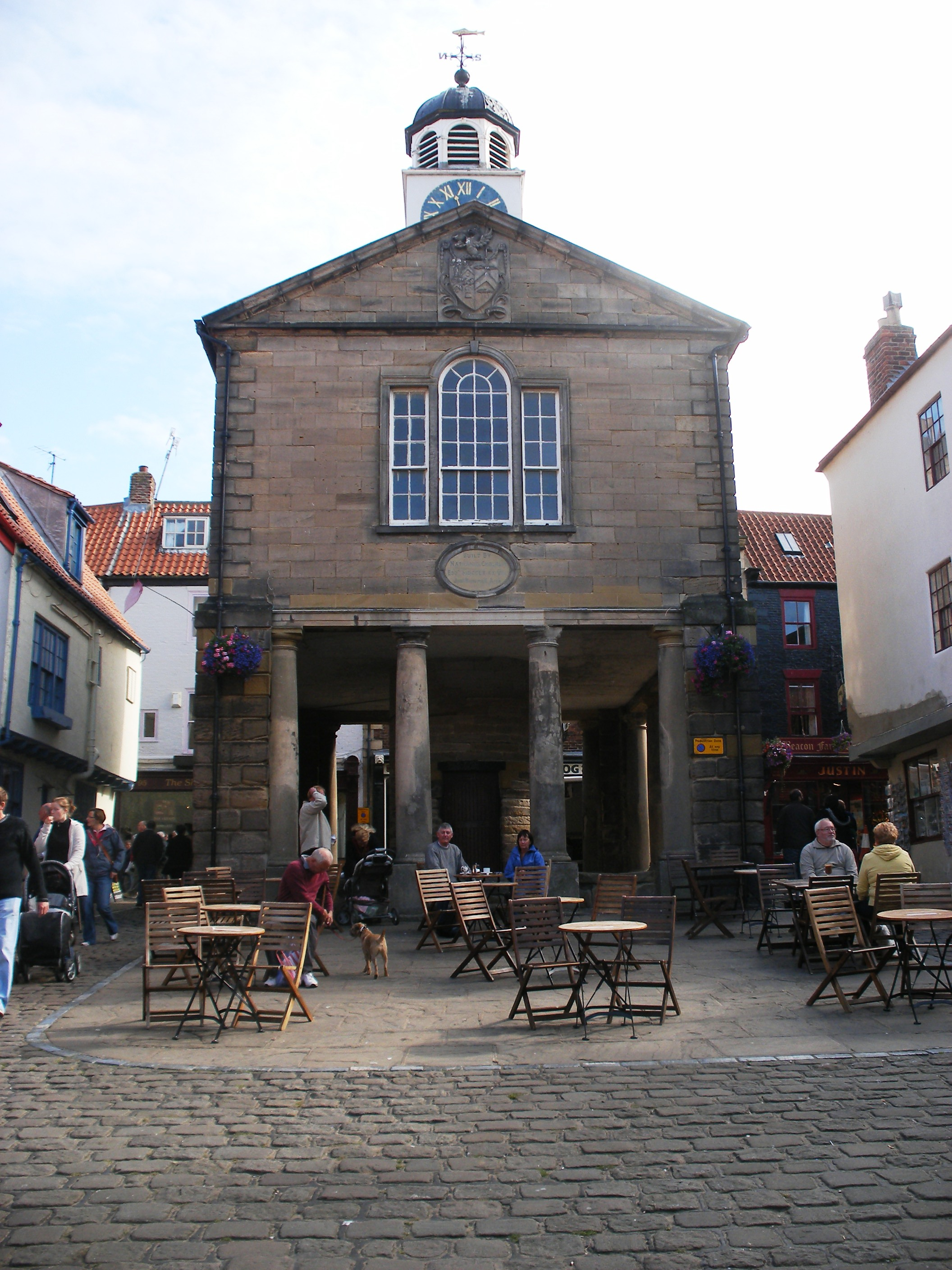 Old town hall